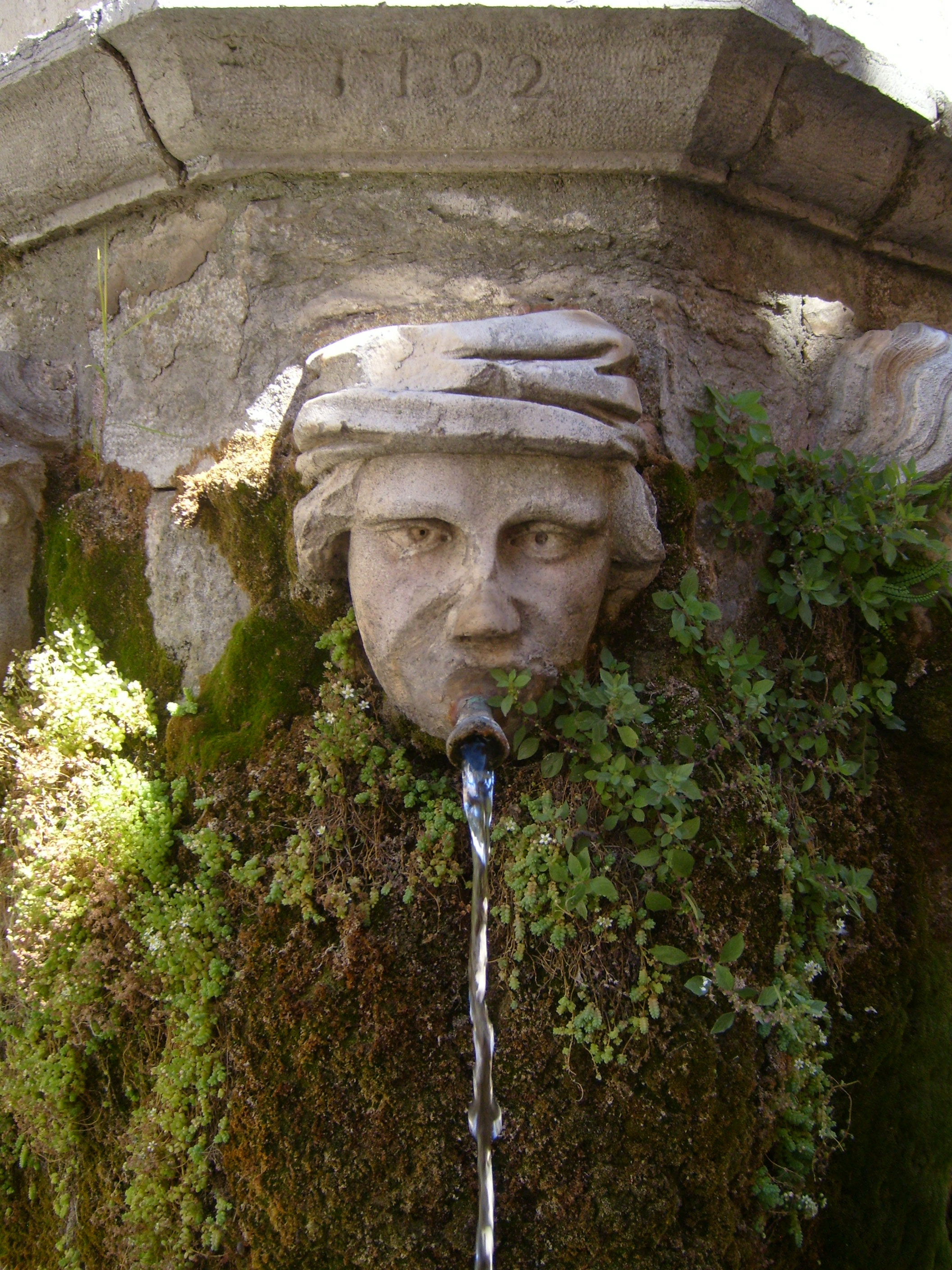 Masqueron of a fountain in Touvres (Var), from 1792. The Masqueron is older, coming from the chateau of the Count of Valbelle, destroyed during the French Revolution.